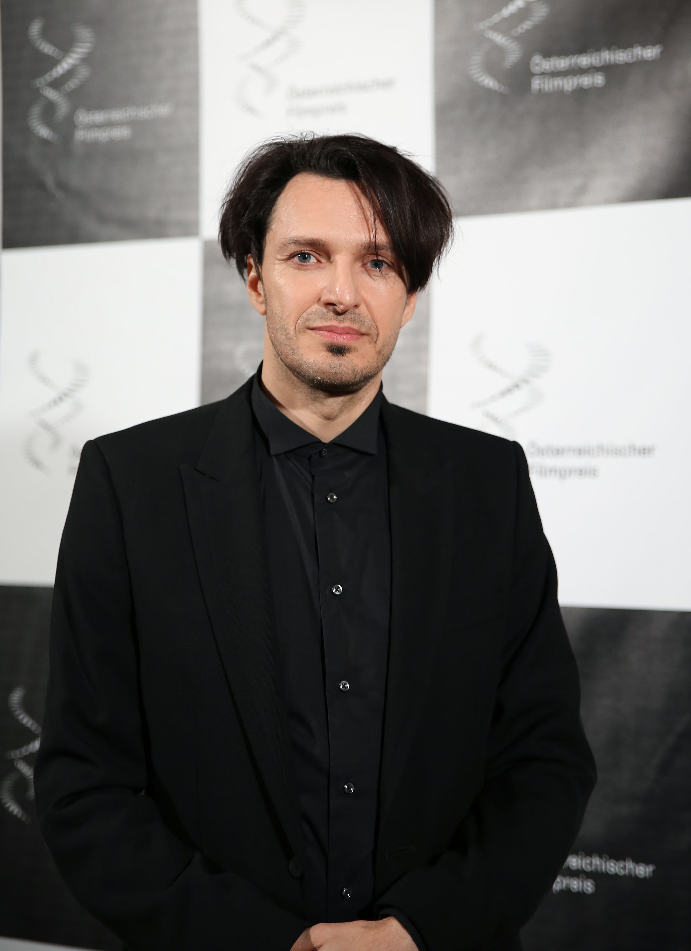 Gerald Igor Hauzenberger, Austrian Film Awards 2013 (Vienna).